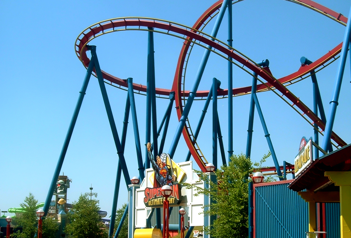 The entrance to Superman: Ultimate Flight at Six Flags Over Georgia.